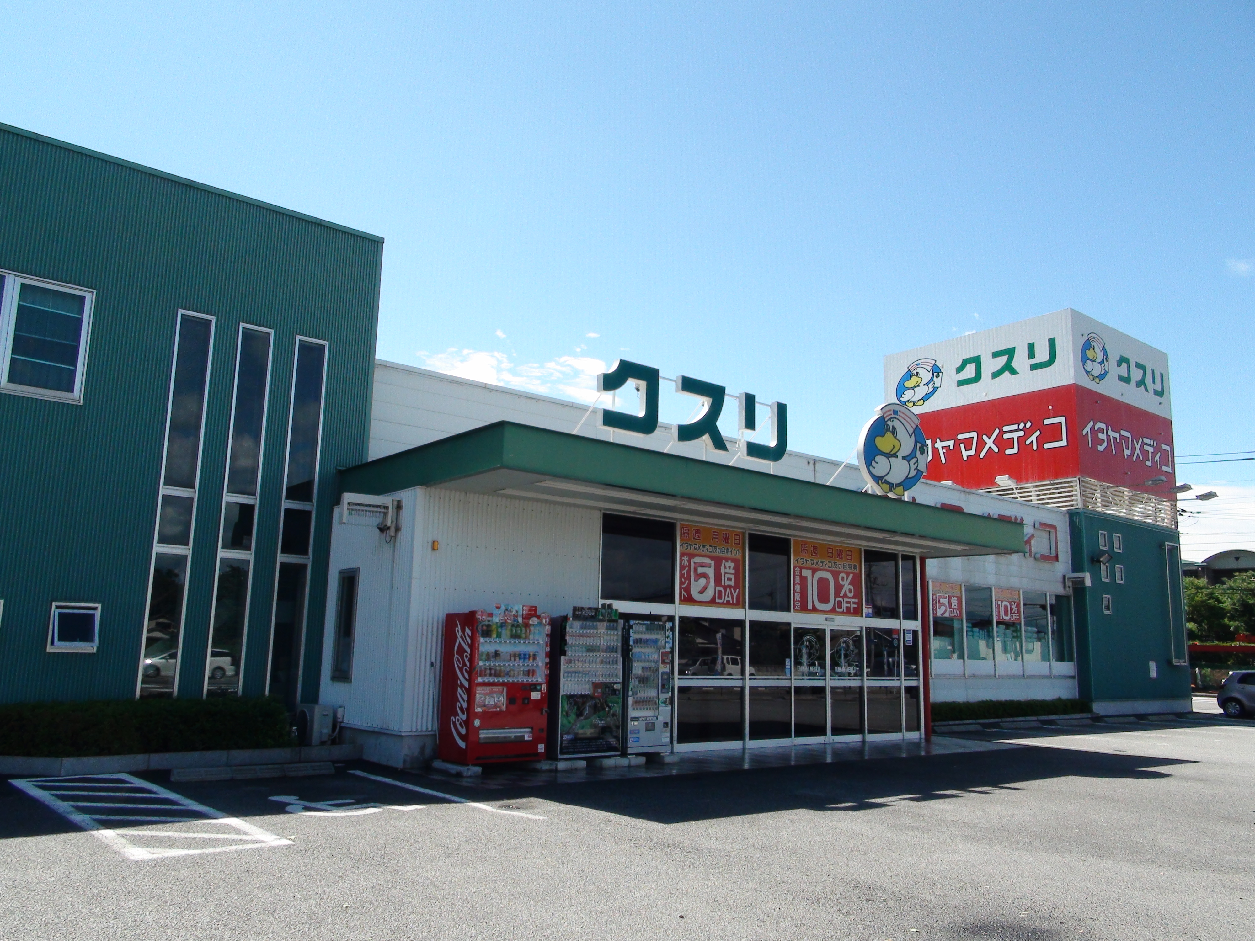 Headquarters and stores ITAYAMAMEDICO Co